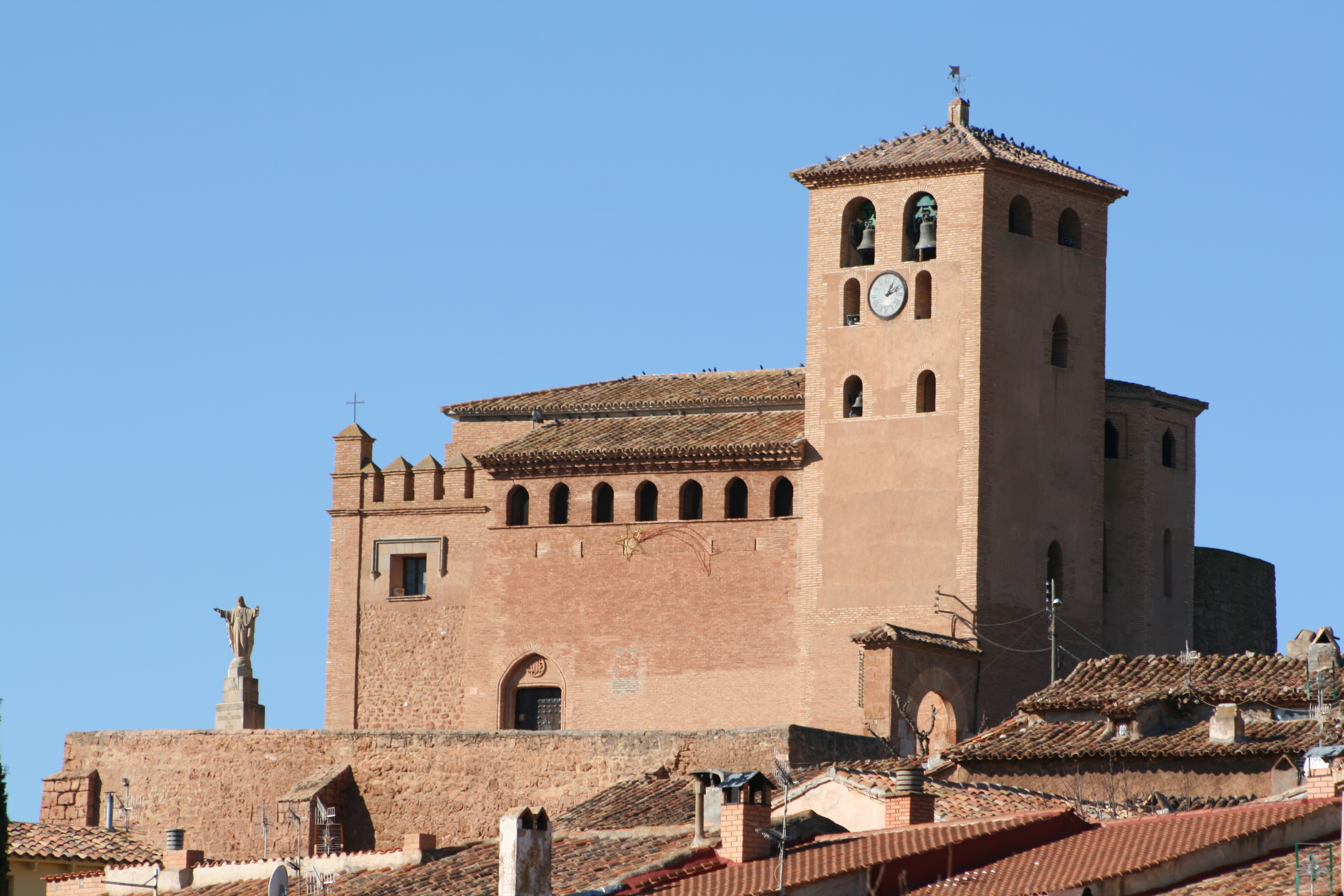 Church of Santa Tecla, Cervera de la Cañada, Spain